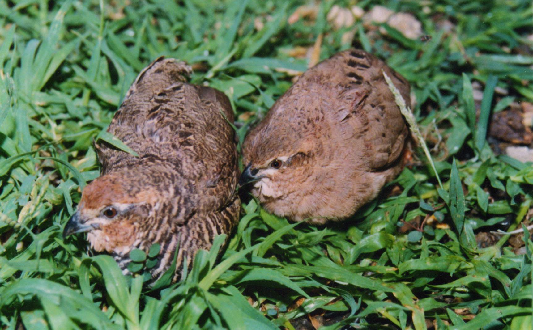 Rock Bush Quail Perdicula argoondah Pair Amravati (5). Maharashtra, India